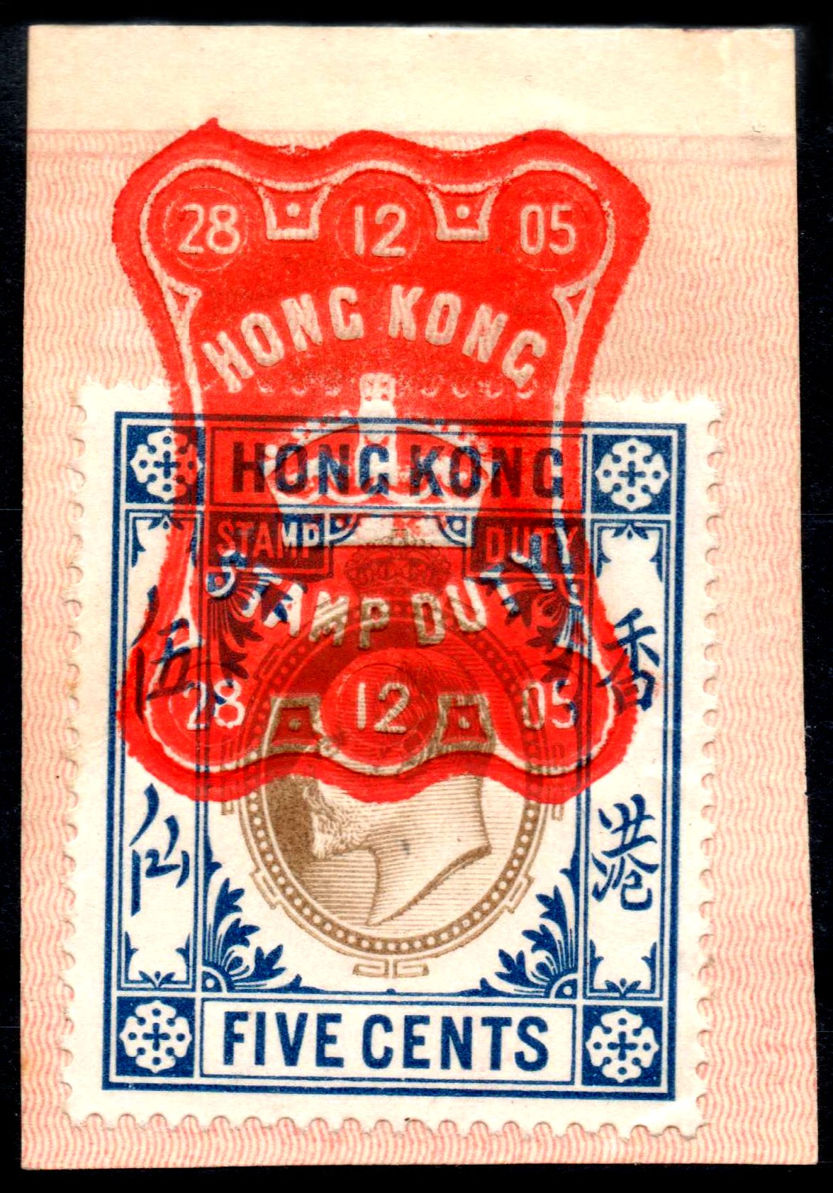 Red overembossing die mark on Hong Kong King Edward VII 5c stamp duty revenue stamp issued in 1903 showing the date 28 December 1905. The die mark dates both the stamp and the document from which it has been cut and ties the two together.